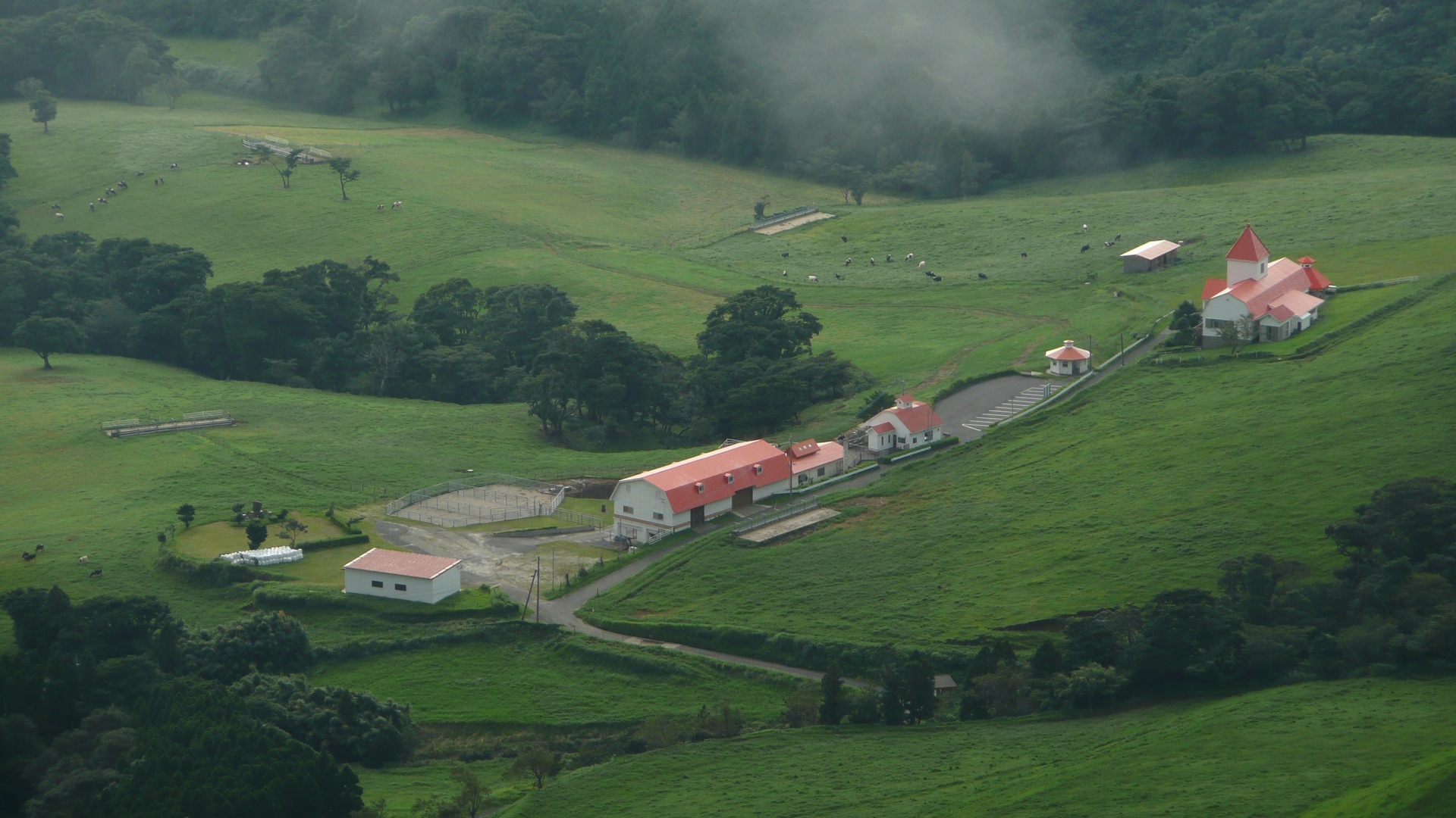 Meinoo Farm (Kanoya City, Kagoshima, Japan)